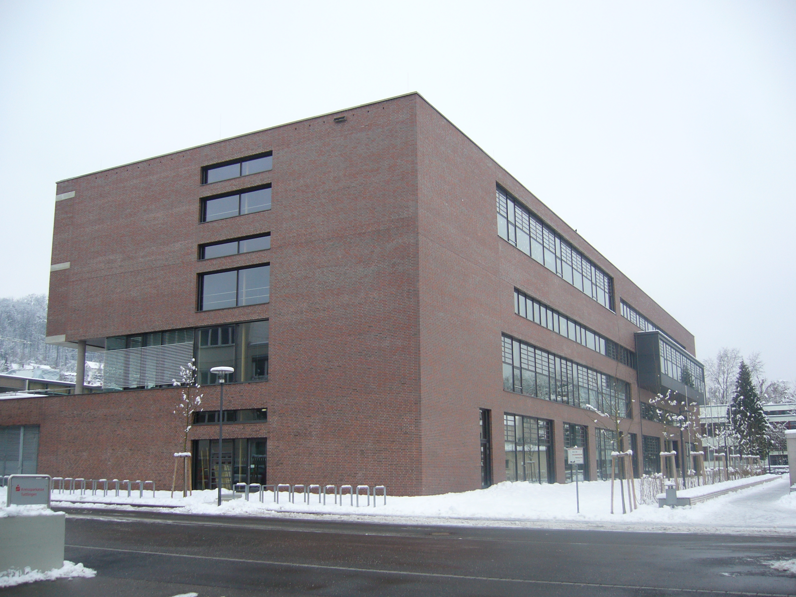 Ludwig-Uhland-Realschule in Tuttlingen, Germany